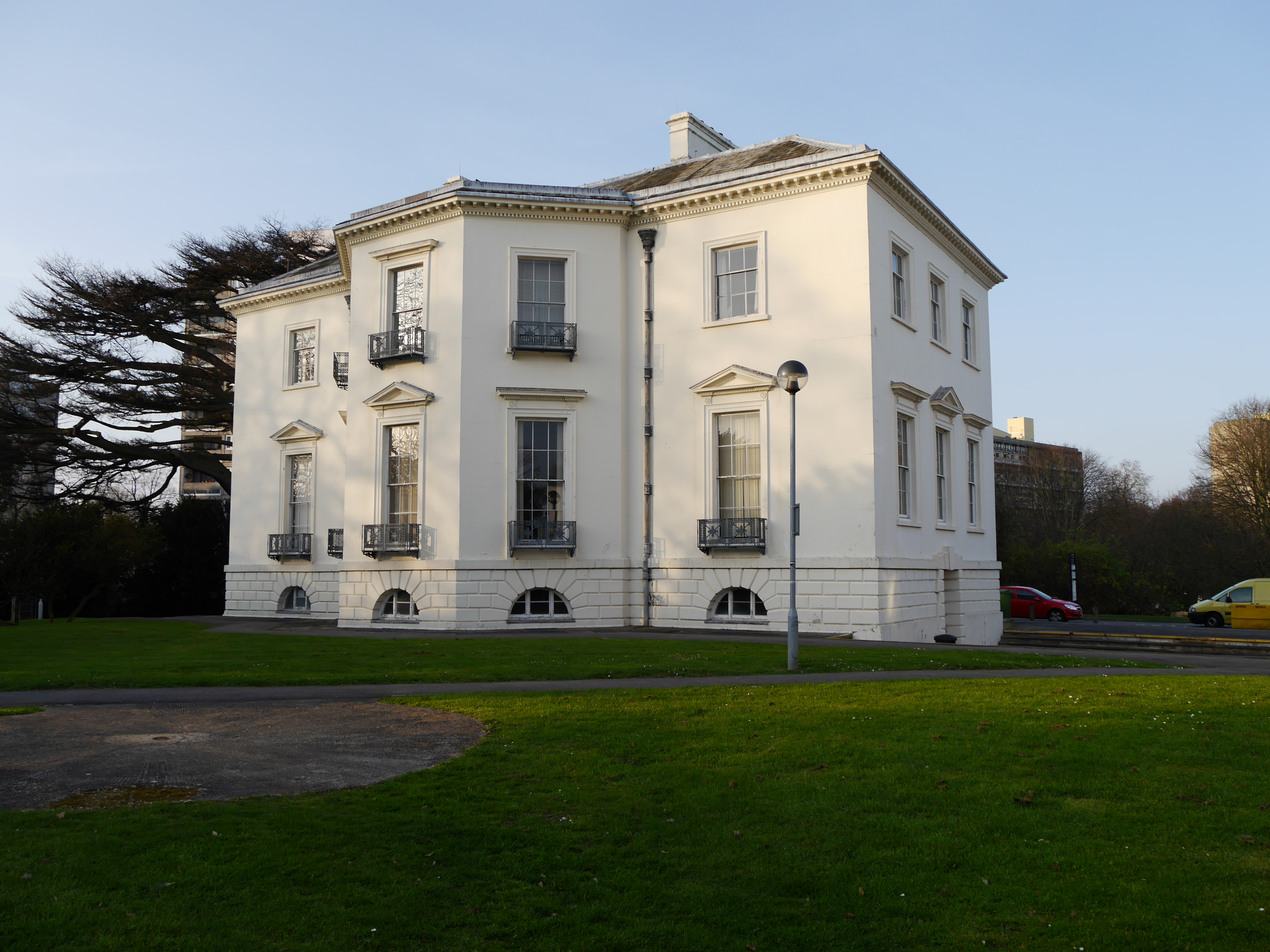 Mount Clare, Roehampton, London